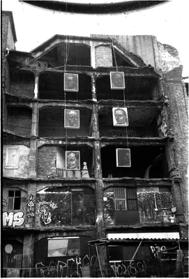 my work berlin 1997